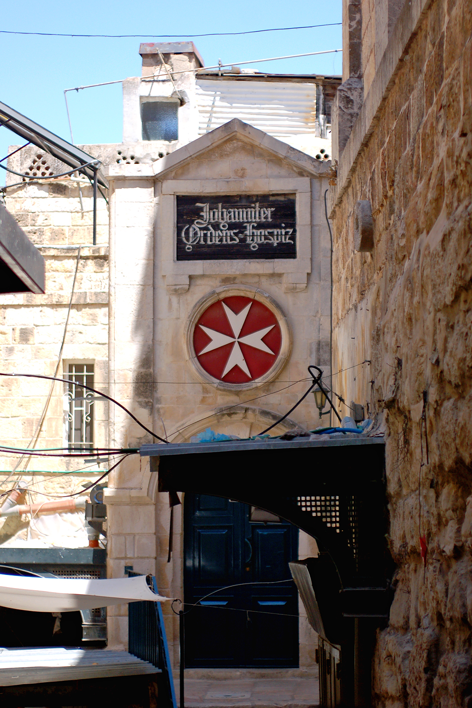 Johanniter Ordens-Hospiz - German hospice near Eighth Station of via dolorosa.